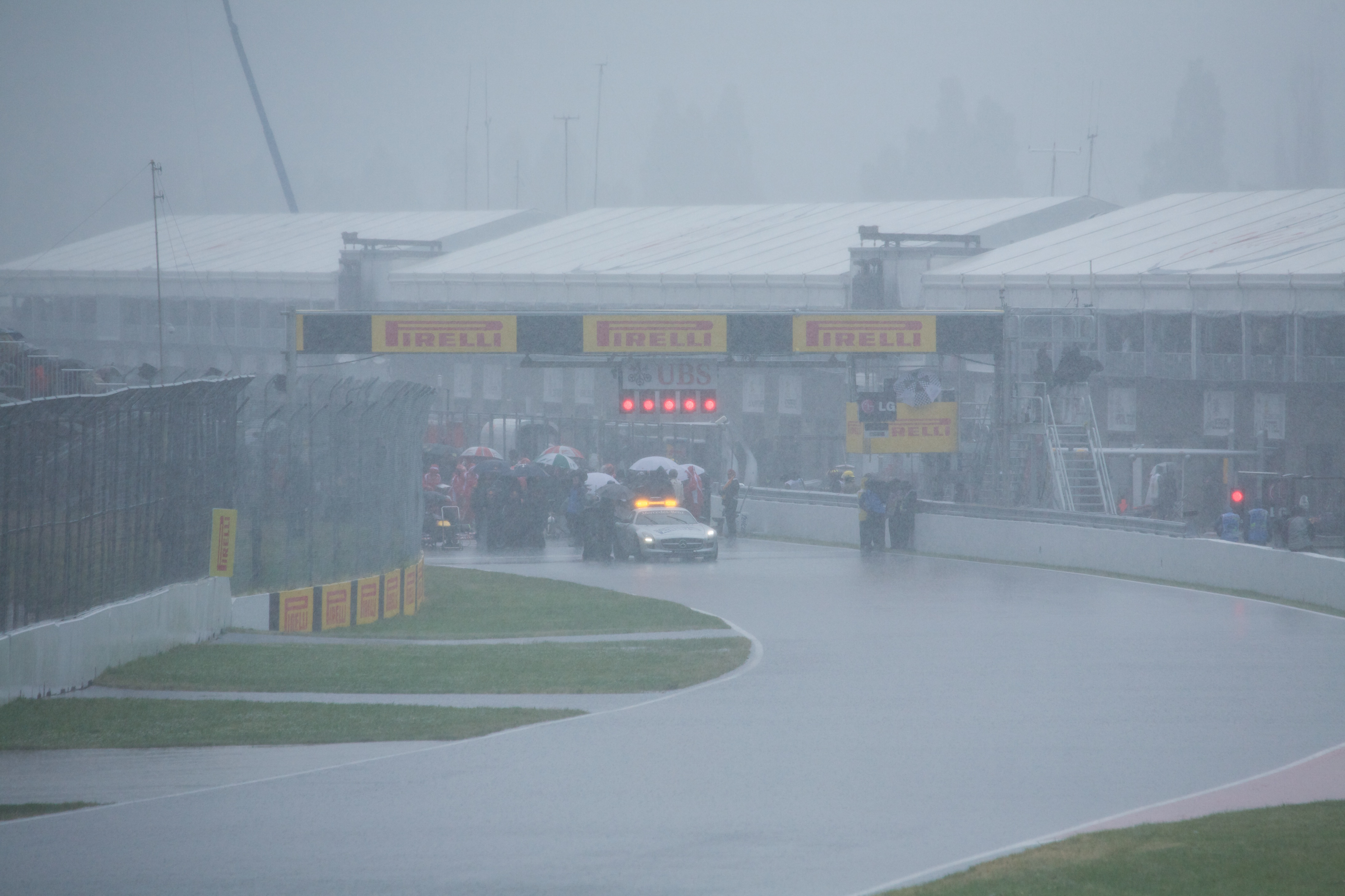 2011 Canadian Grand Prix